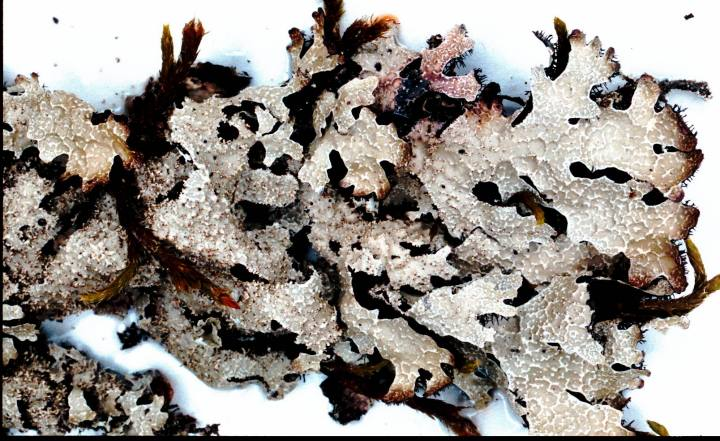 Parmelia saxatilis (L.) Ach., 1803 Photograph of a herbarium specimen showing a hammered metal appearance and an abundance of laminal isidia. Parmelia saxatilis was growing on large rock near the Naraguasus River at Route 182 in Washington County, Maine, USA (Lat. 44o44.528' N, Long. 68o00.770' W); collected and identified by E.C. Uebel (No. U-163, 13 Jun 2001).